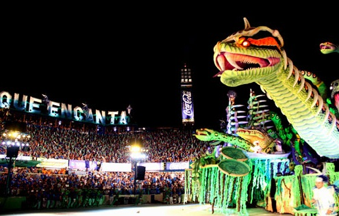 Alegoria Boiúna. Festival 2011.